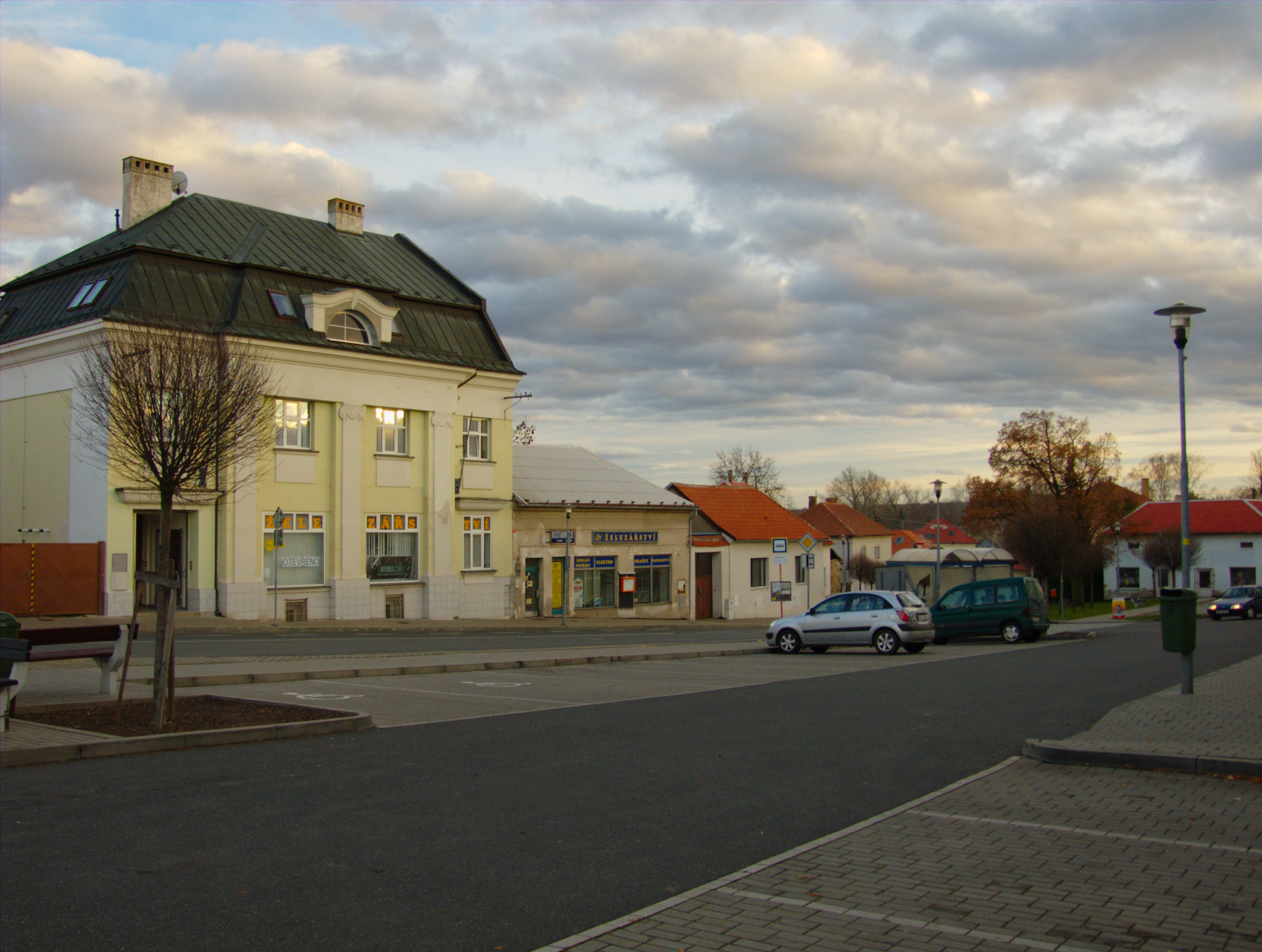 Main square in Plaňany, Central Bohemian Region, CZ